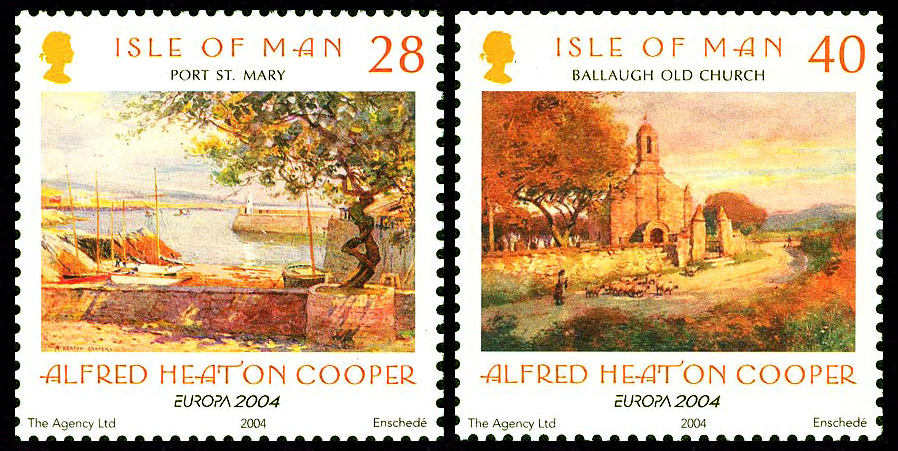 Postage stamps of Isle of Man, 2004. Issue of the program EUROPE. Watercolors by Alfred Heaton Cooper